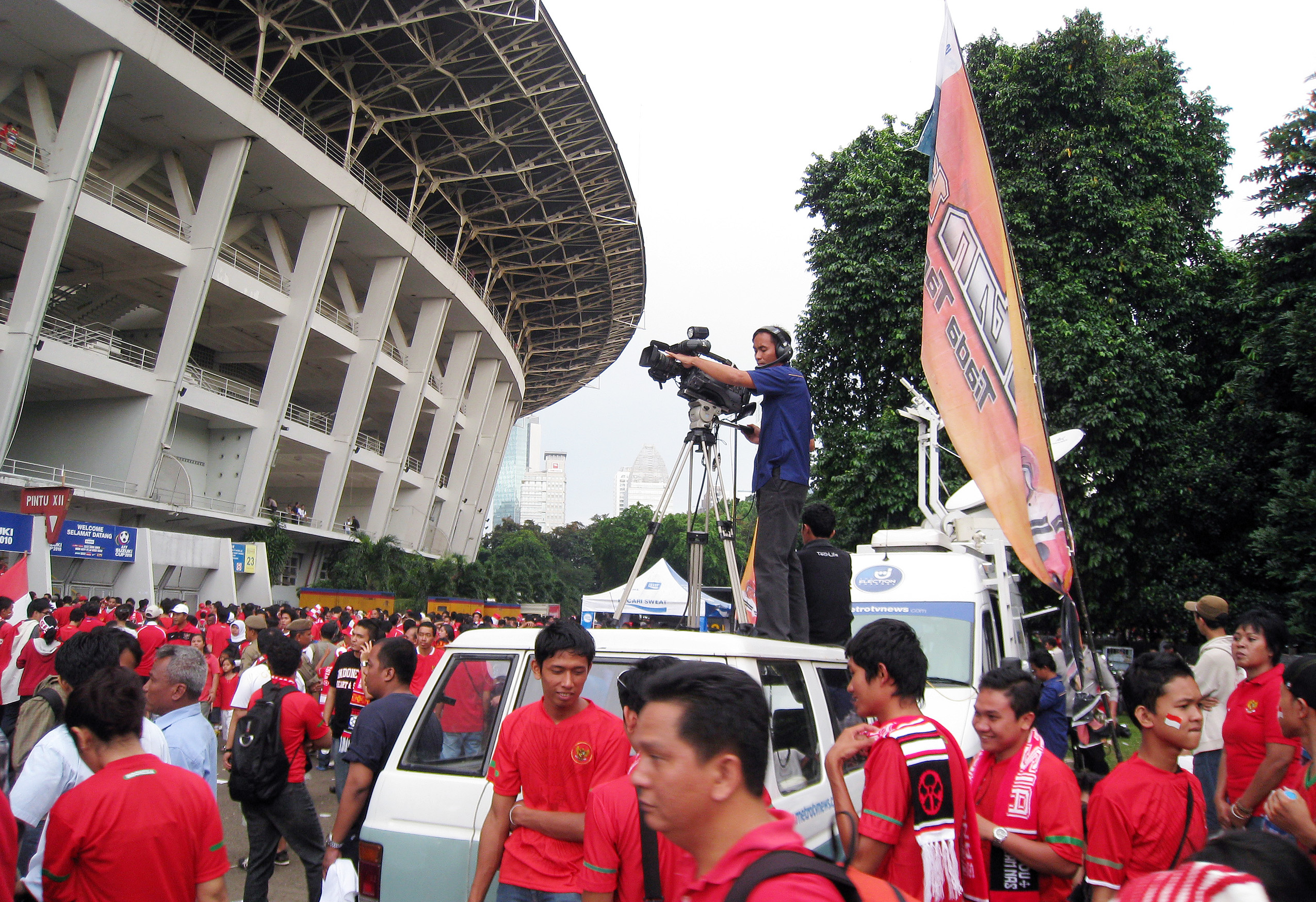 TV News reporters from Metro TV during AFF 2010 match in Gelora Bung Karno Stadium, Jakarta, Indonesia. 19 December 2010.